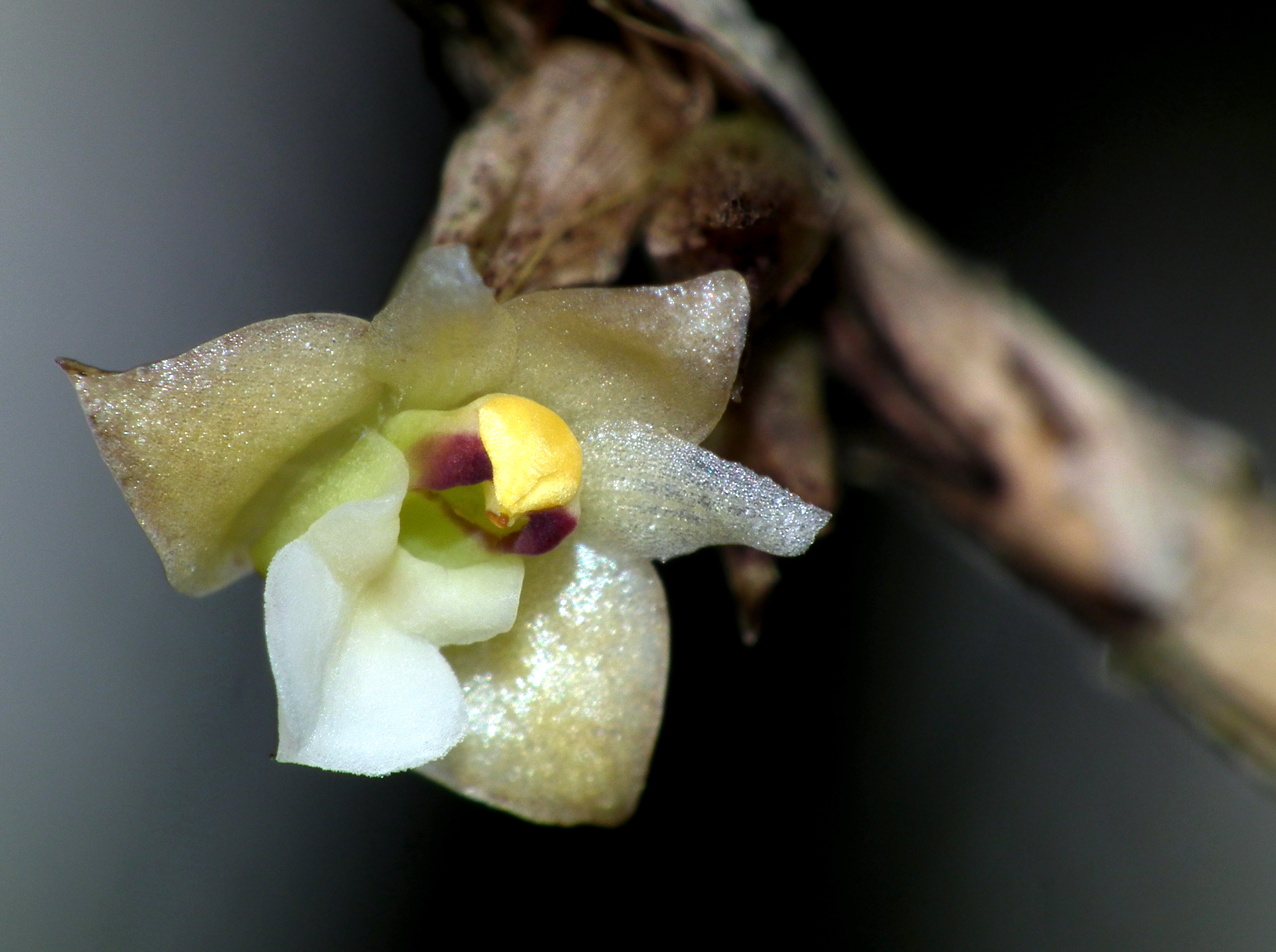 A. elongatum